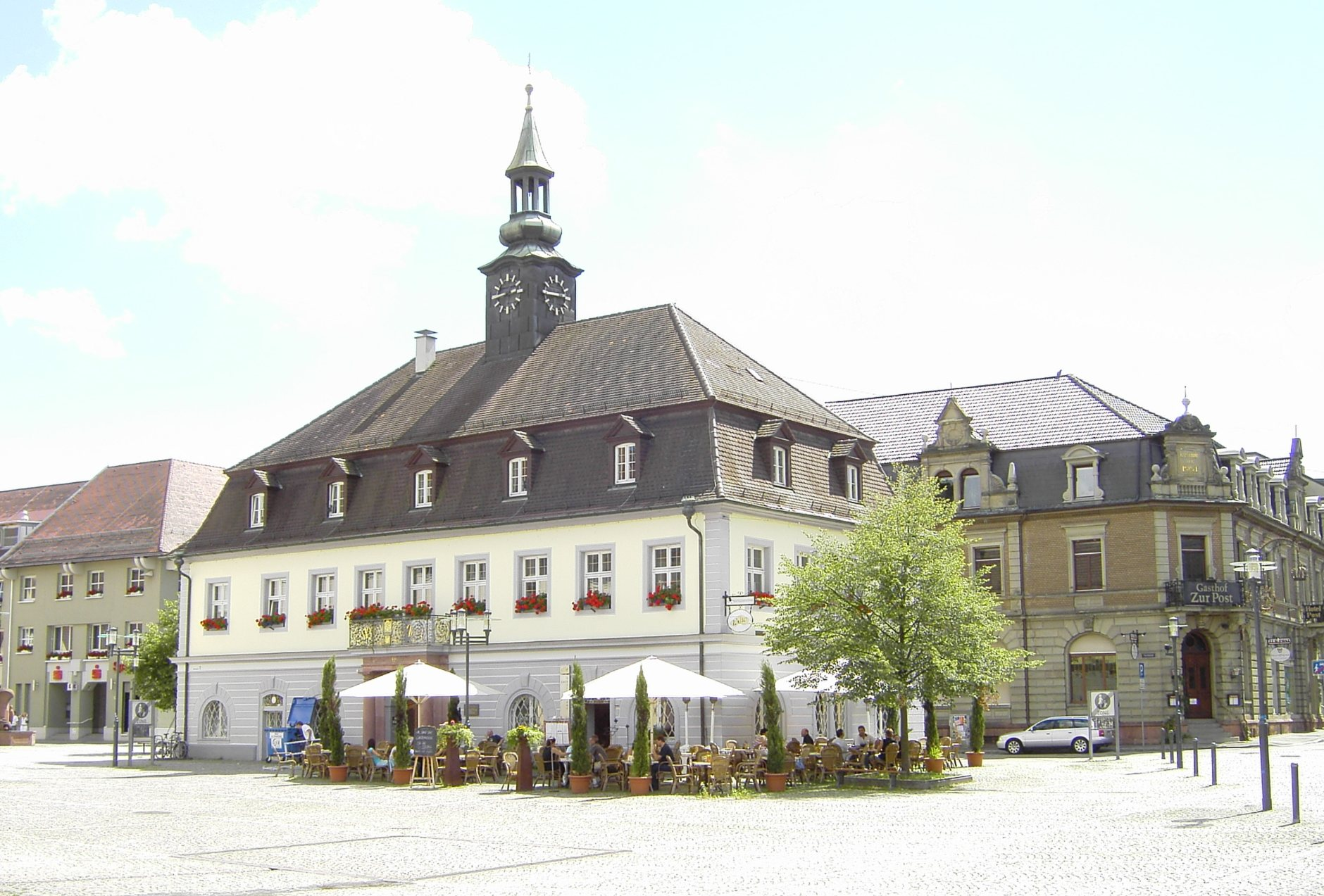 Beschreibung: Emmendingen - Marktplatz mit ALtem Rathaus Quelle: selbst aufgenommen Fotograf: CrazyD, 31. Juli 2005 Lizenzstatus: GNU FDL Description: Emmendingen - old cityhall Source: photo was taken by my self Photographer: CrazyD, 31 July 2005 Licence: GNU FDL